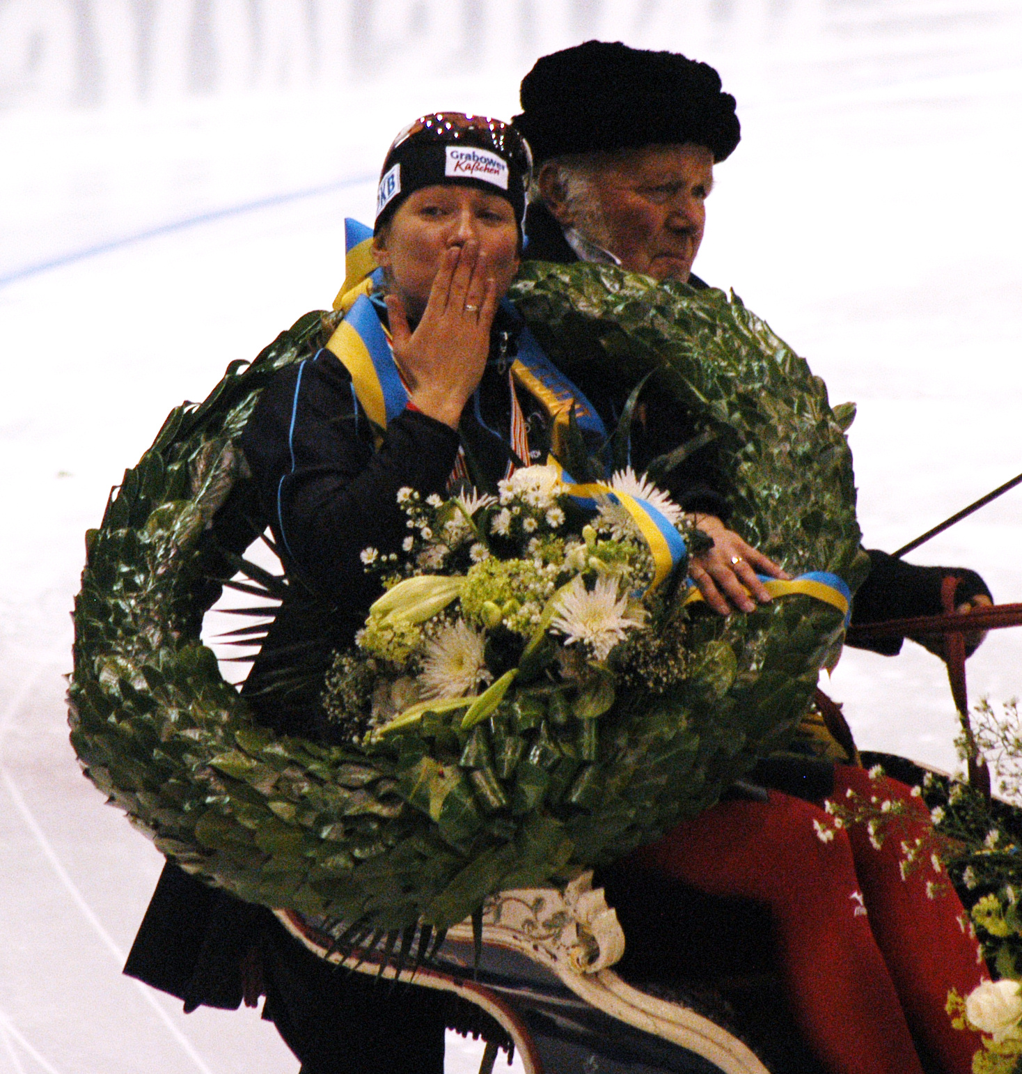 Claudia Pechstein (GER). Winner of the European Allround Speed Skating Championship 2009.